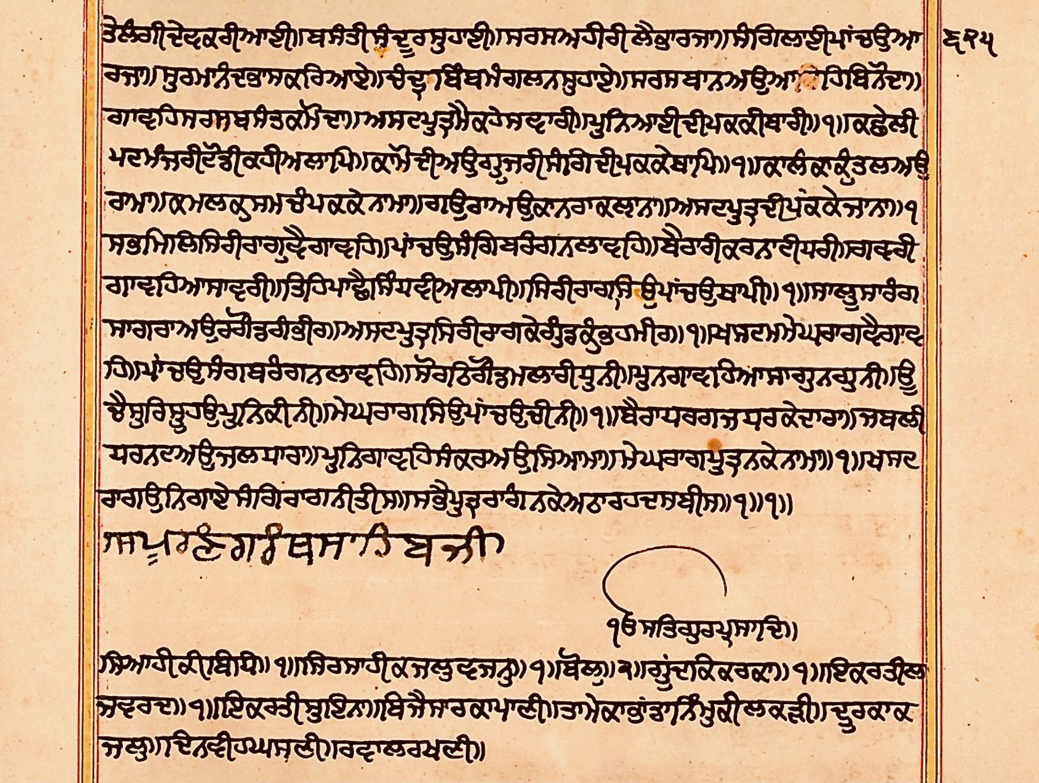 The Guru Granth Sahib is the primary scripture of Sikhism. The first edition of Adi Granth was completed in 1604 CE at the behest of Guru Arjan by his scribes. The final edition of the Sikh scripture was finalized by Guru Gobind Singh in 1704. The above photo is of a manuscript copied on paper in early 19th-century, and is now MS 2166 of the Schoyen Collection, near Oslo, Norway. It is written in Punjabi language on paper, Gurmukhi script. This is a photograph of a two-dimensional manuscript copied in early 19th-century from a much older text. Therefore and PD-Art and PD-US-expired guidelines of wikimedia commons apply. Any rights I have as a photographer, I herewith donate to wikimedia commons under CC 4.0.